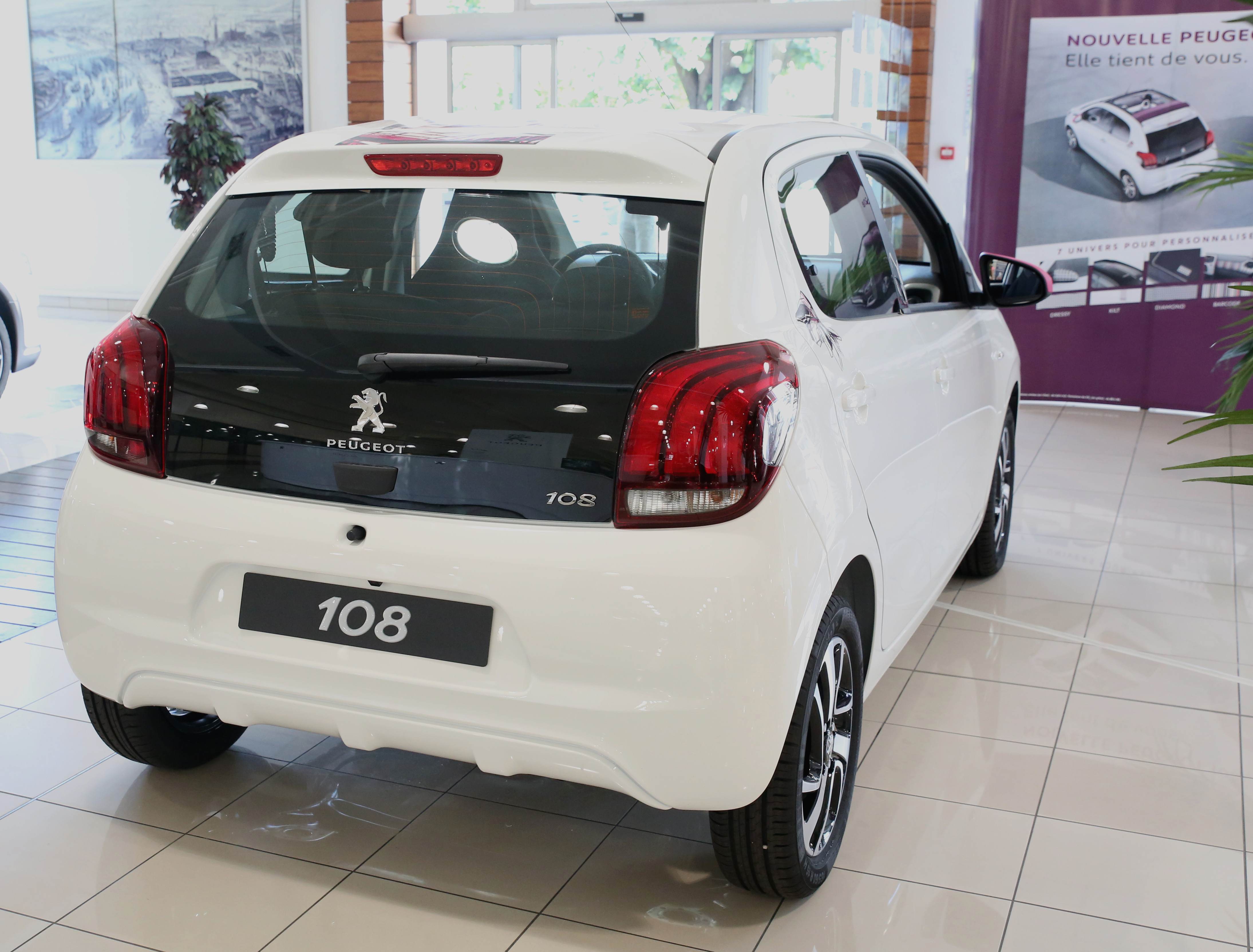 Peugeot 108 2014